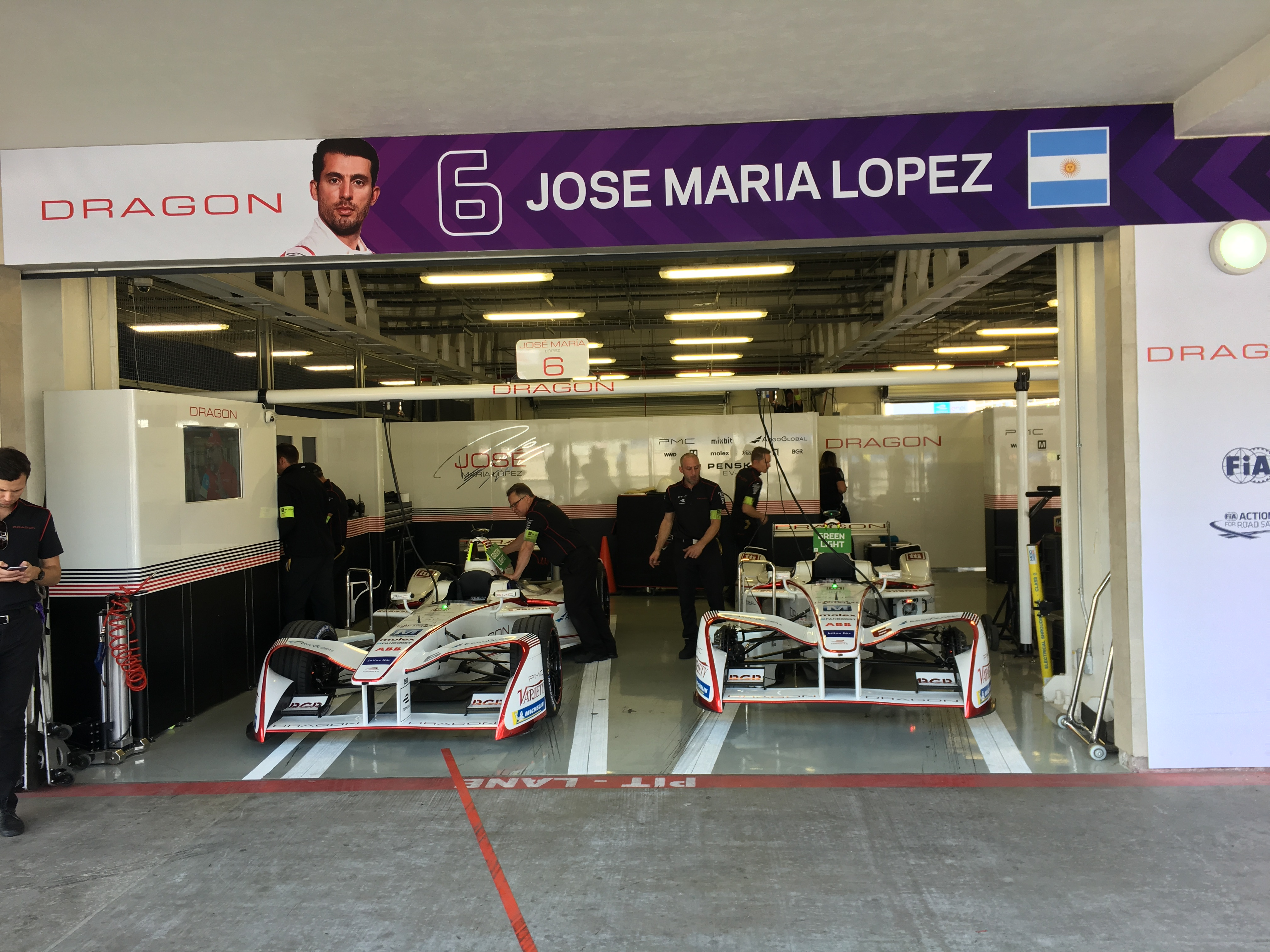 José María Lopez´s garage in the Formula E Mexico E-Prix 2018